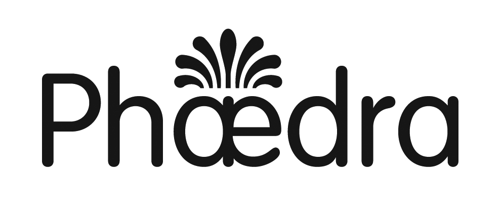 Logo Phaedra (cd-label) since 2010